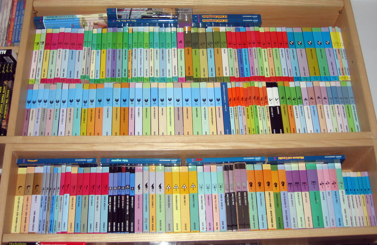 Italian gamebooks called "Librogame"